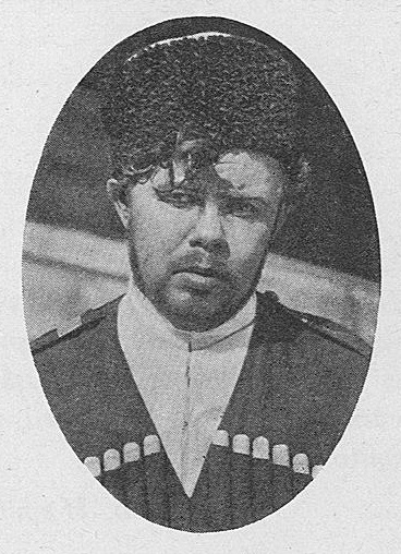 Finnish theatre personality, early 1930s.